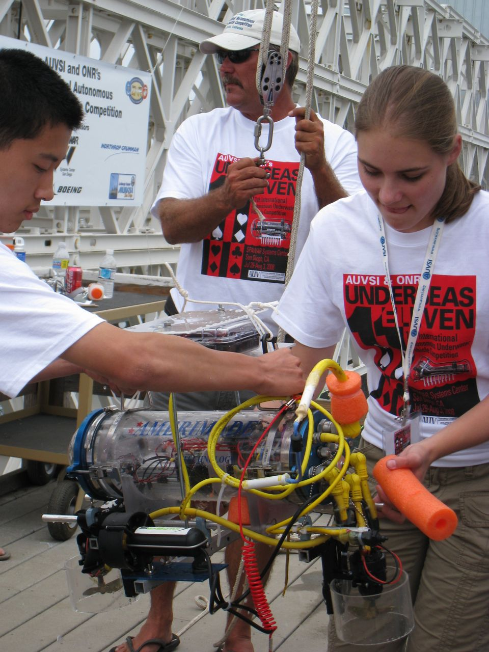 Two Amador Valley students prepare the AUV for deployment at TRANSDEC during the 2008 competition.